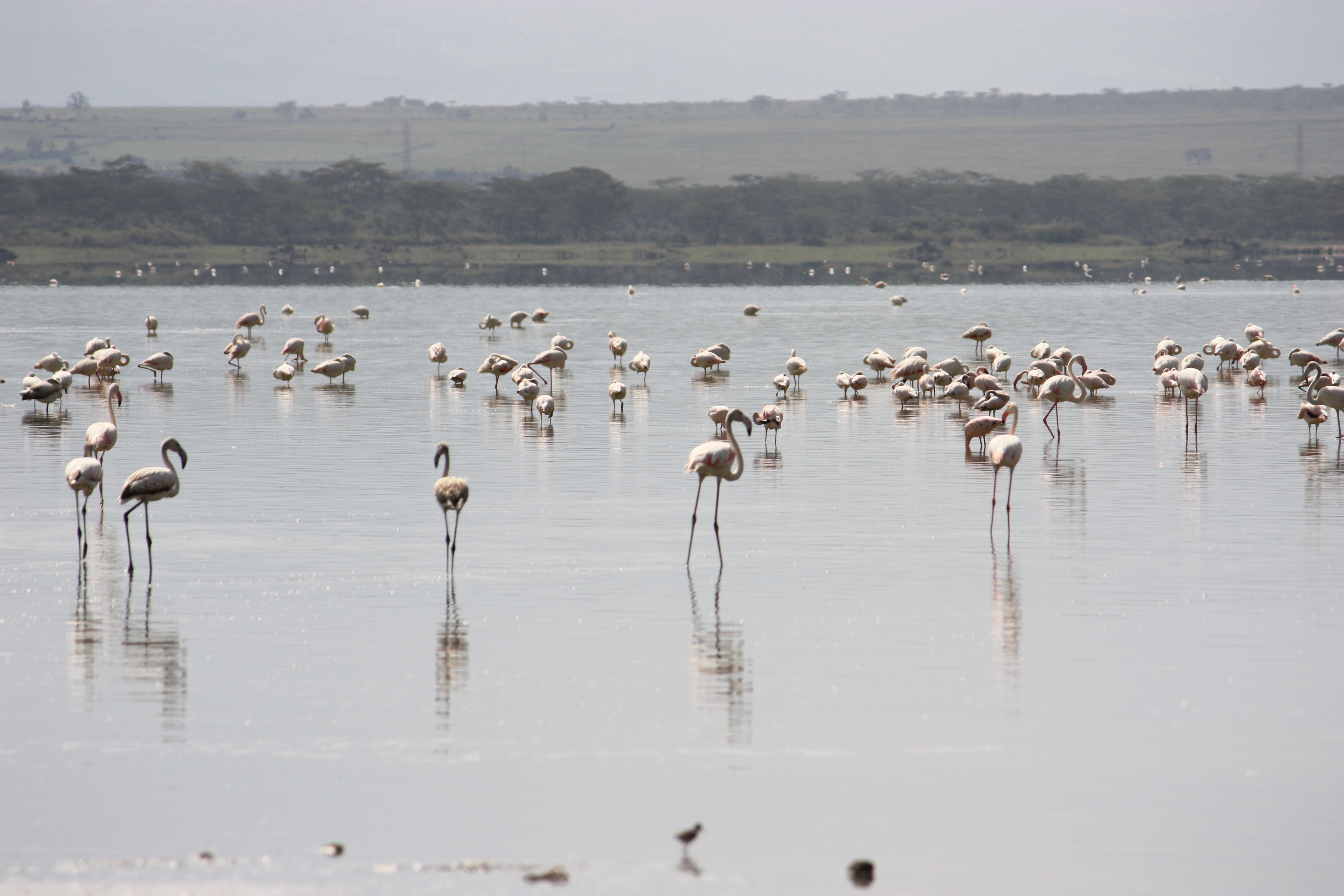 Lake Elementaita